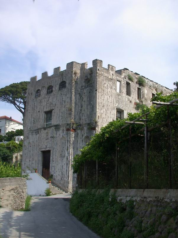 Inside the Conservatory of Pucara, Tramonti